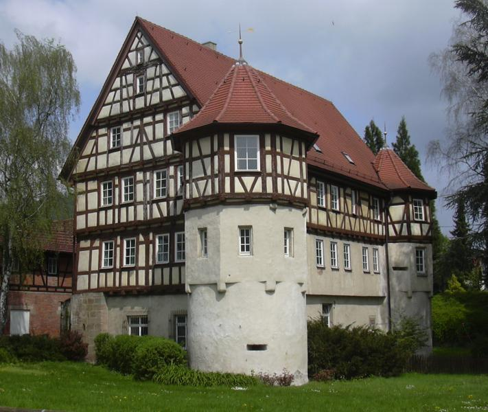 Former castle in Sulzbach an der Murr, Germany